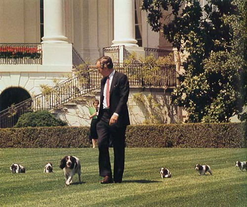 President George H. W. Bush with his Springer Spaniel, Millie, and her five puppies on the White House South Lawn. One of the puppies, Spotty, would be the George W. Bush’s pet and live again in the White House.